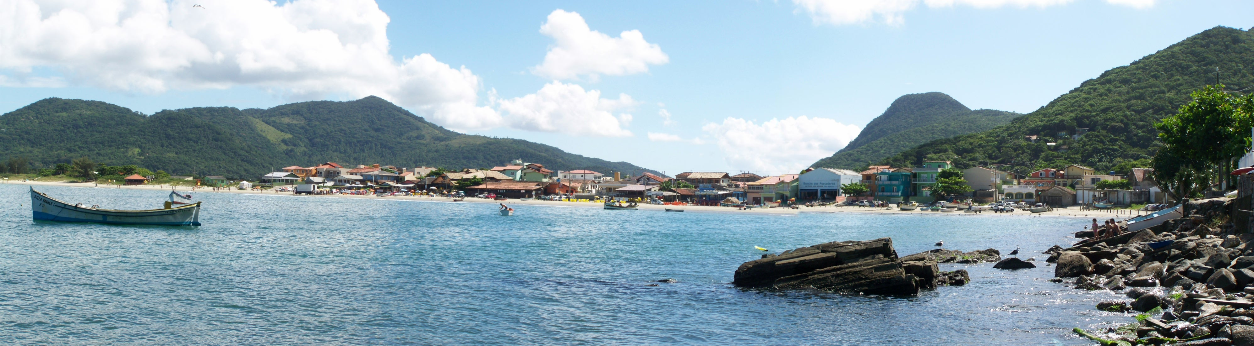 Beach of Pântano do Sul, Florianópolis, SC, Brazil